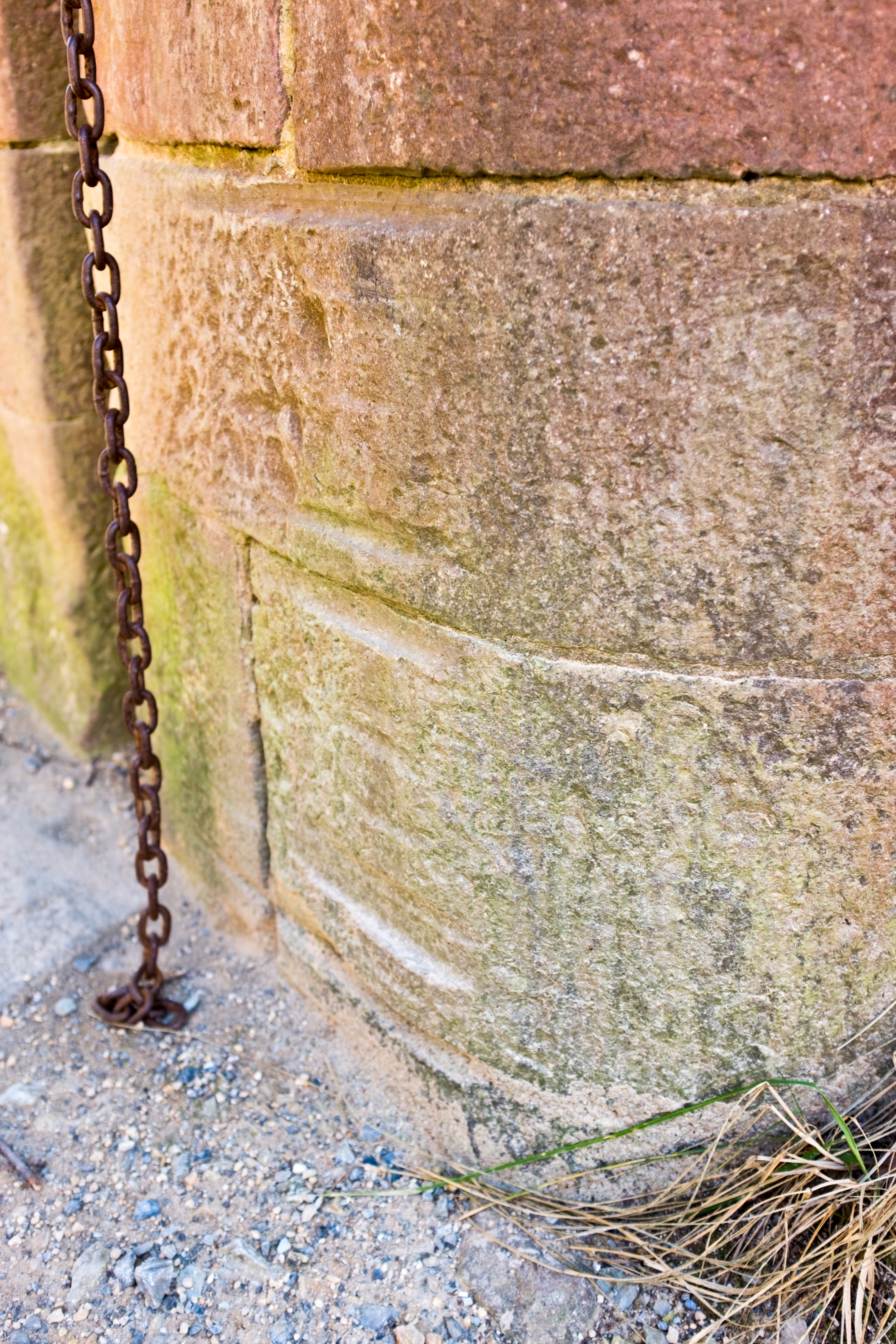 Rope burns on bridge/stop gate masonry, above lock 16, at 13.74 miles on the Canal. This is near Great Falls.